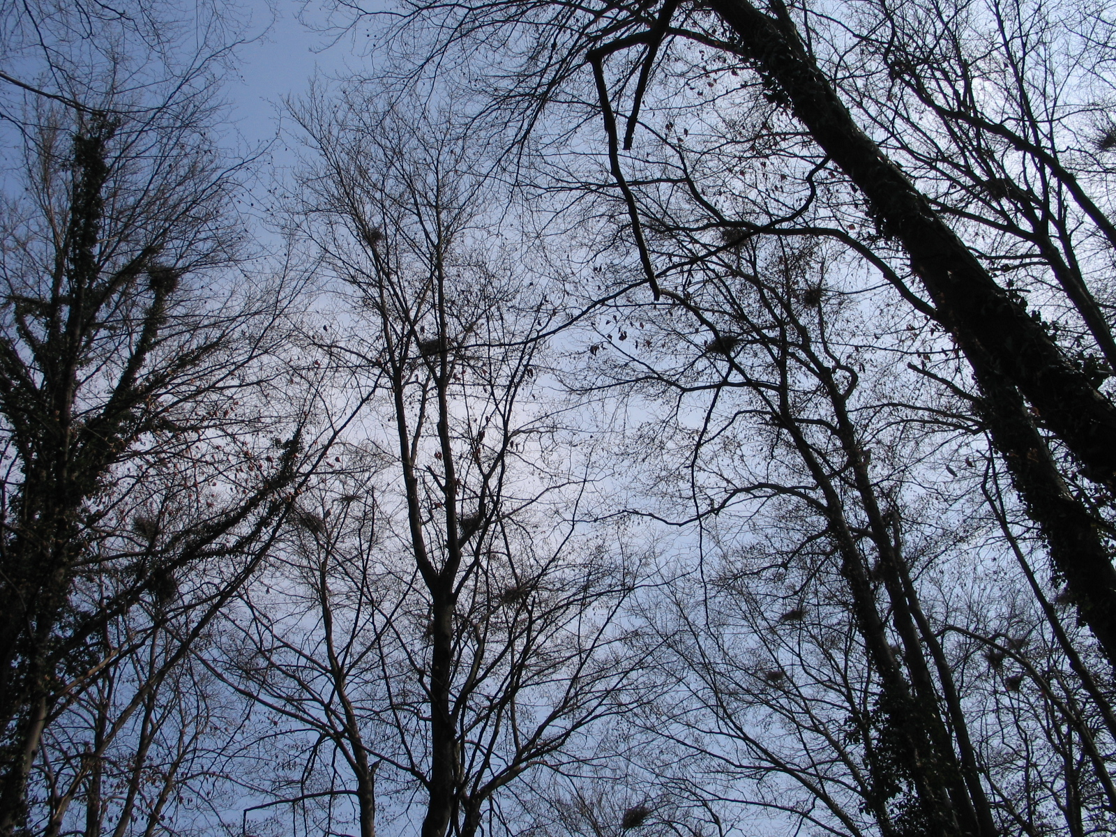 Part of a grey heron (Ardea cinerea) heronry on the bank of Savinja river near Zidani Most, Slovenia, at the start of the breeding season.